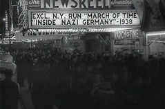 Crowd in front of the Embassy Newsreel Theatre (New York) running "The March of Time" film "Inside Nazi Germany" 1938; from The March of Time - outtakes - Story RG-60.1140, Tape 937